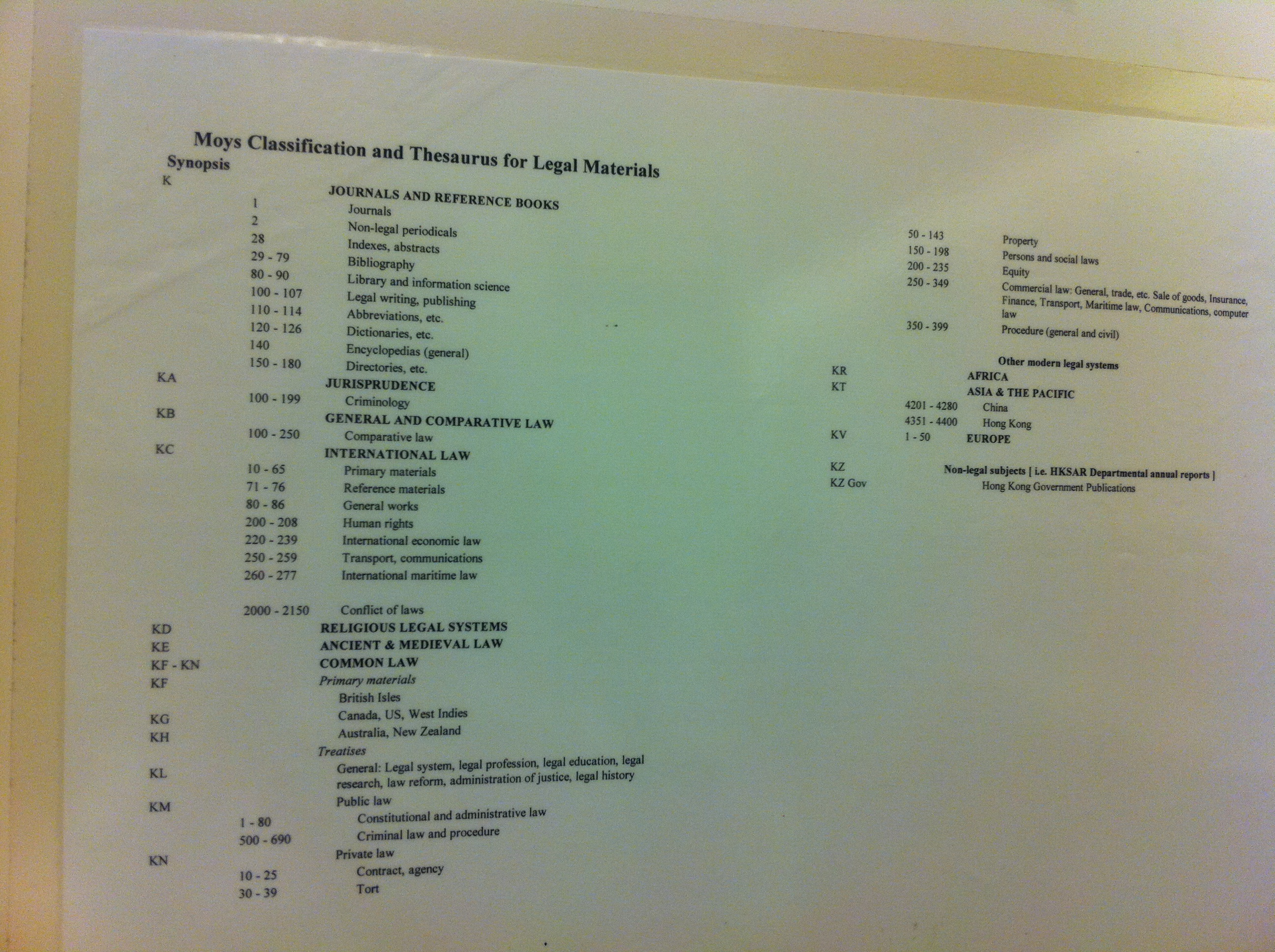 香港島高等法院圖書館 - Moys Classification system was designed by Betty Moys